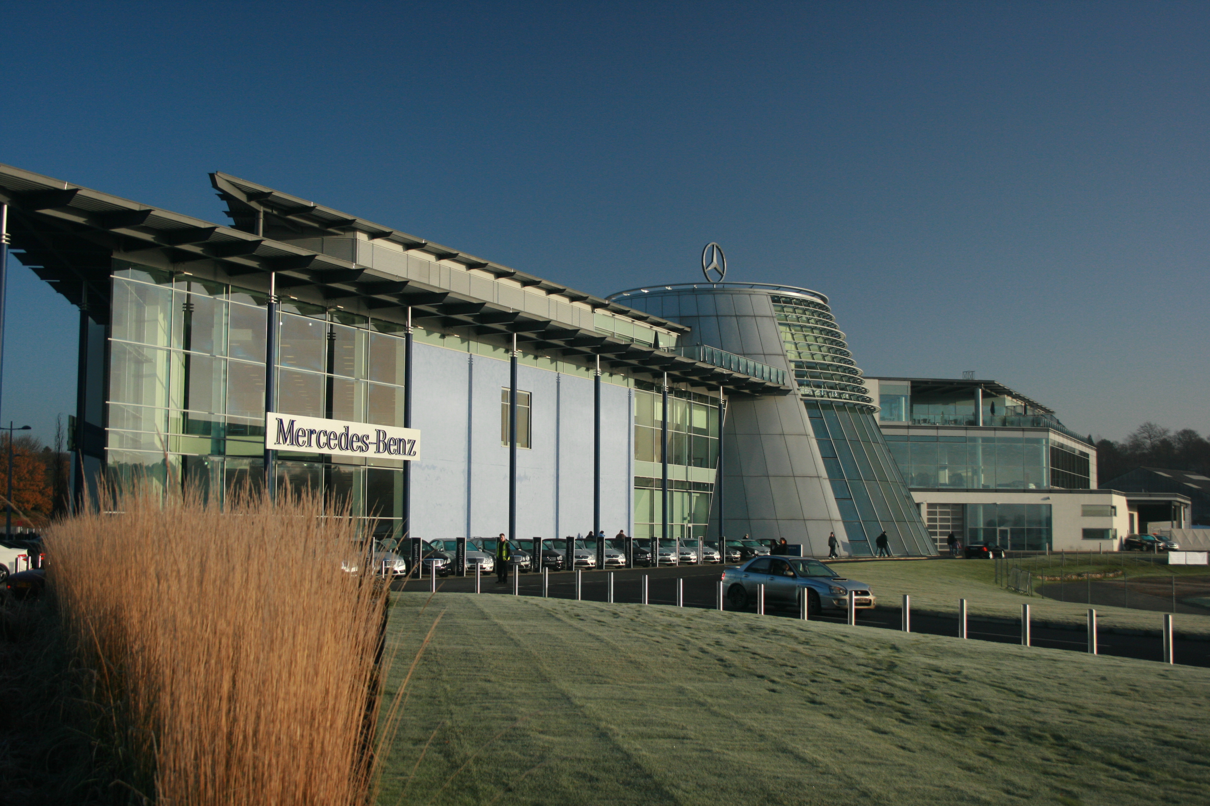 Mercedes-Benz World, Weybridge, Surrey